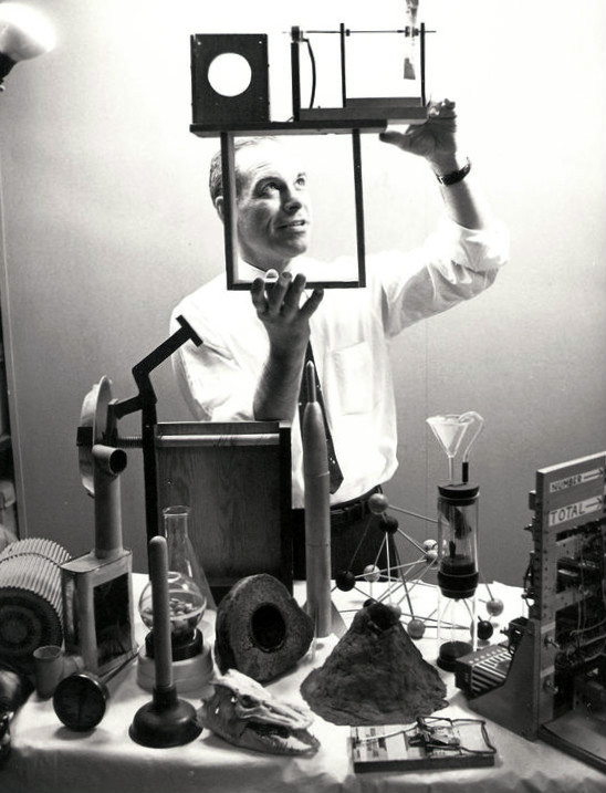 Publicity photo of Don Herbert from the Watch Mr. Wizard television program.